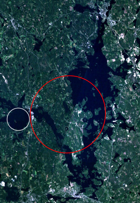 Landsat 7 satellite image of the Keurusselkä lake region. Keurusselkä impact structure is marked with a red ellipse, suggested impact structure of Ukonselkä is marked with a white circle